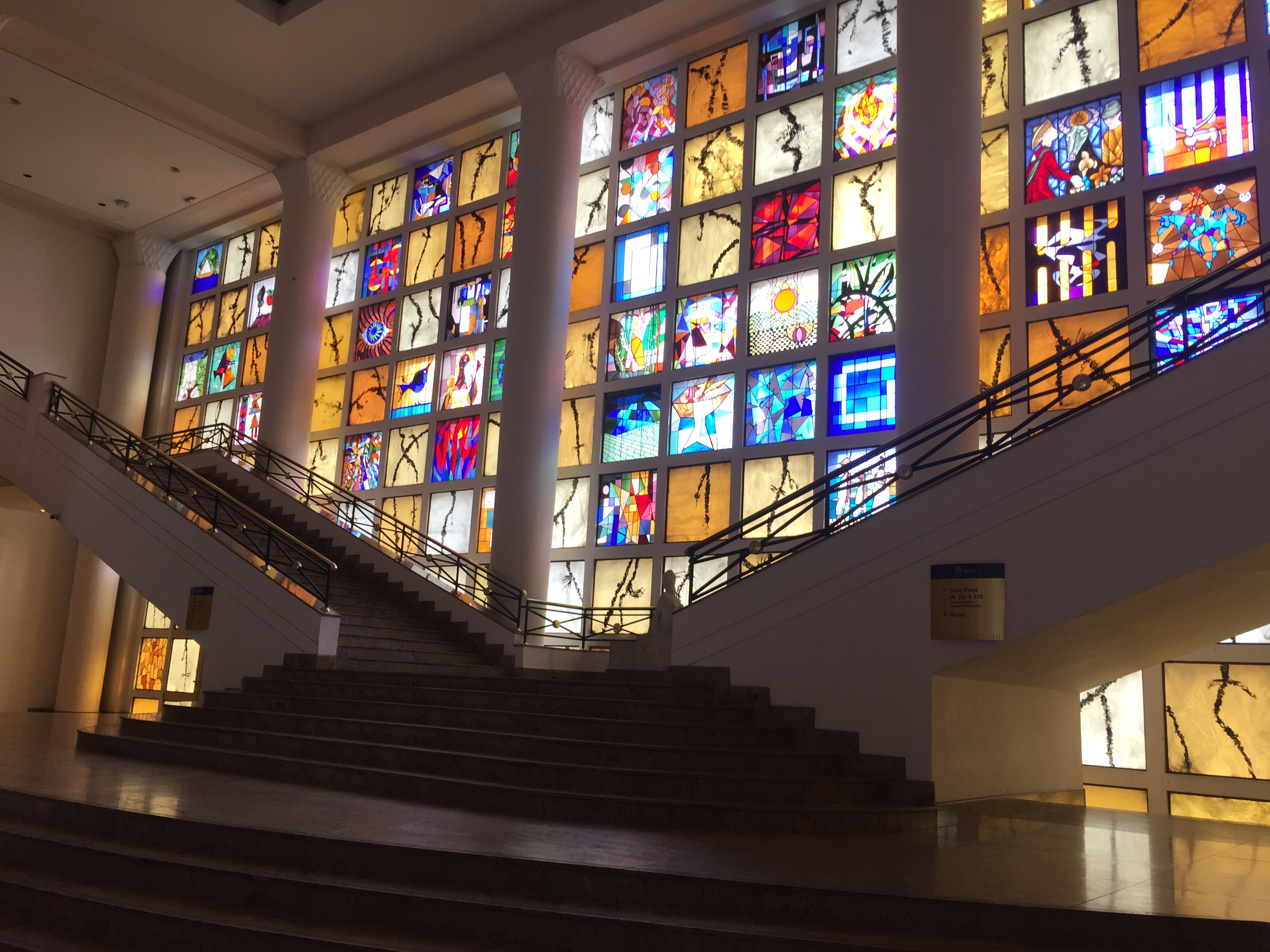 Foto interna do museu